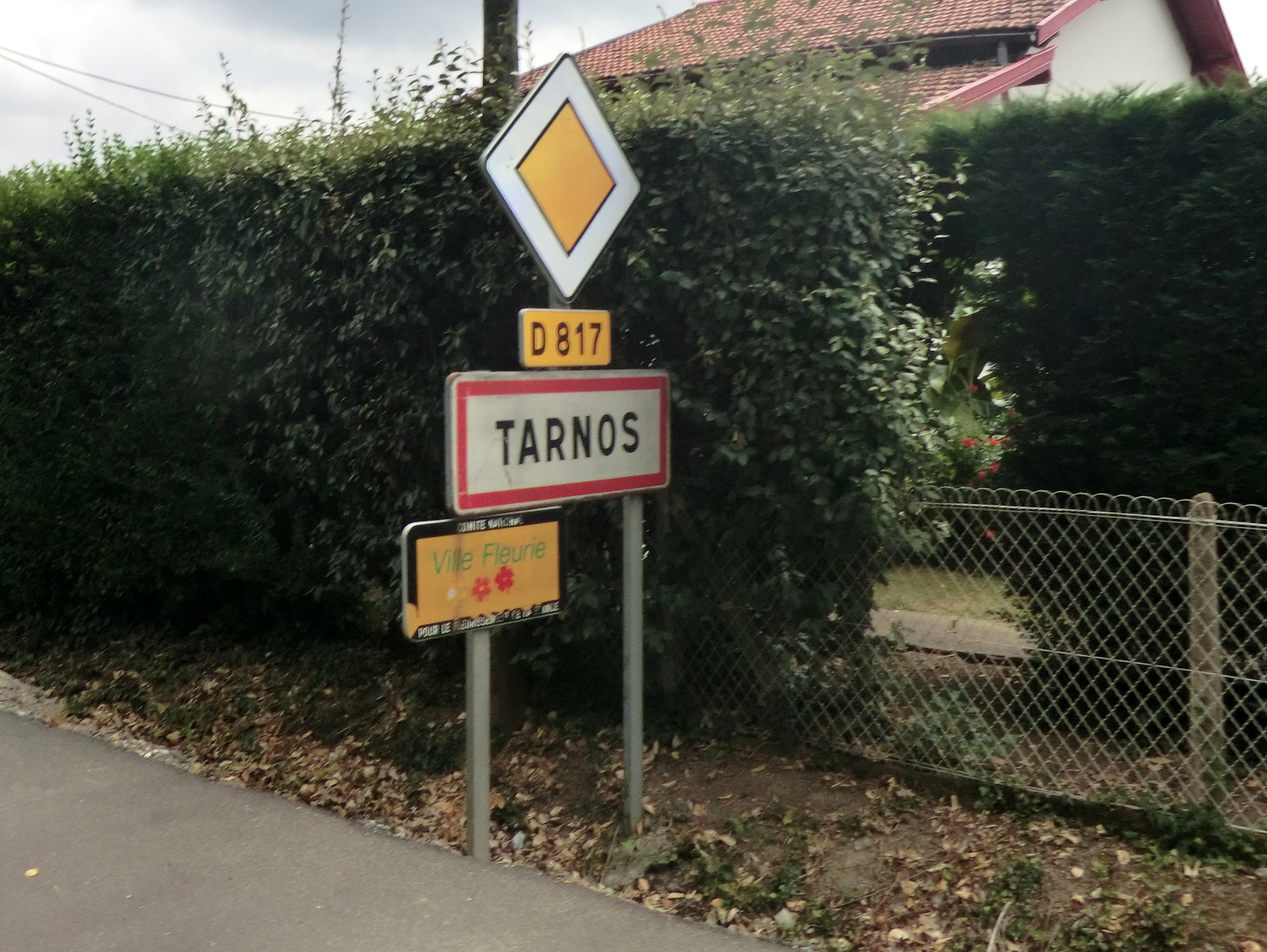 City limit sign of Tarnos.